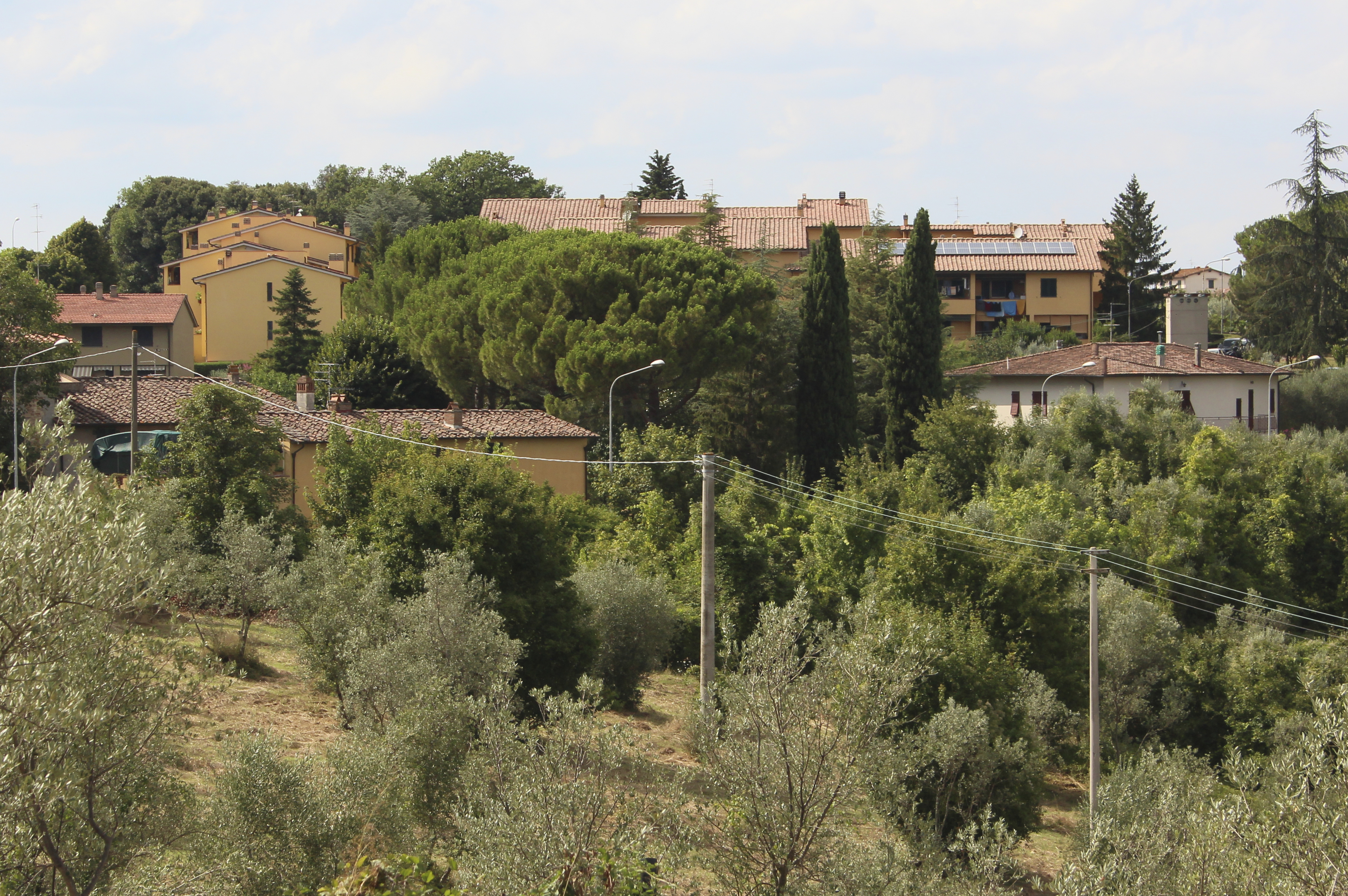 Spedaletto, hamlet of San Casciano in Val di Pesa, Metropolitan City of Florence, Tuscany, Italy